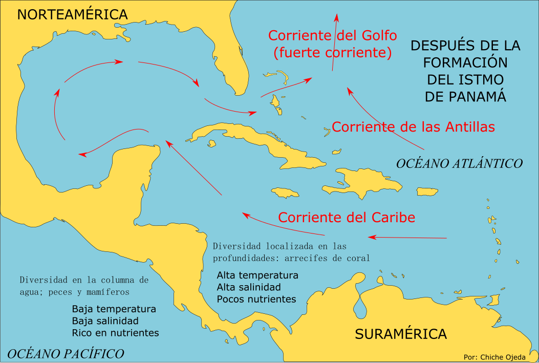 After the formation of the Isthmus of Panama, the Caribbean Sea became a closed sea, generating the Gulf Stream with few tidal movements and few nutrients, and it also generated warmer temperatures in northern Europe. As a result, the sea became hotter and saltier, ideal for creating coral reefs. The Pacific Ocean, on the other hand, was more complex as it was colder, since the trade winds cross Panama, on the Pacific side, pushing the surface waters to the west, causing the cold water, rich in nutrients, to rise from the bottom to the surface. These nutrients, along with energy from the sun, trigger a massive plankton bloom that supplies millions of anchovies that then generate a feeding frenzy for seabirds, tuna, rays, whales, and sharks. It is also less salty, and contains few coral reefs.